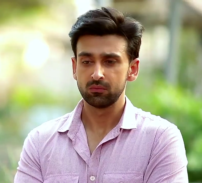 Sami Khan on the sets of Aisi Hai Tanhai